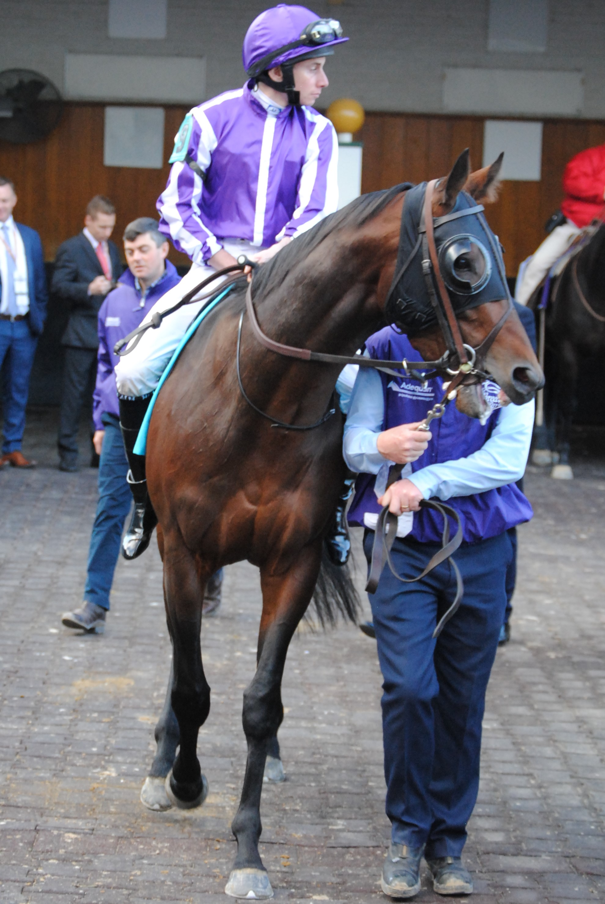 Mendelssohn and Ryan Moore at the 2018 Breeders' Cup